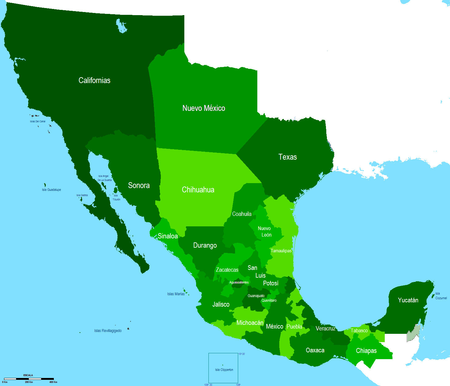 Map of Mexico in 1835 after the enactment of the Constitutional Bases, it shows the changes to the former states, now Departamentos.